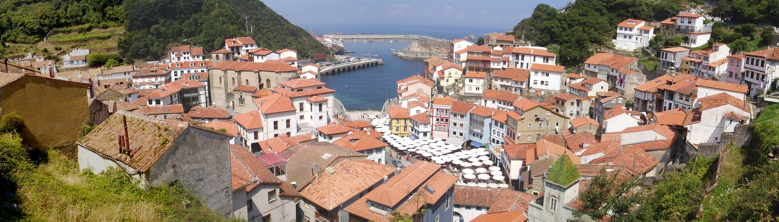 Cudillero. Principality of Asturias. Spain